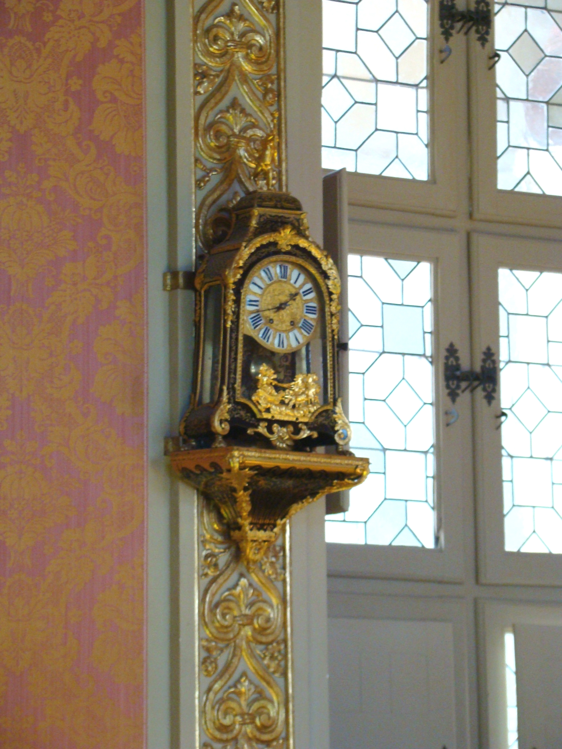 An old clock in Court of Appeal.